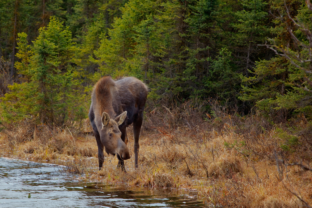 Alaskan, cow moose drinking from pond.